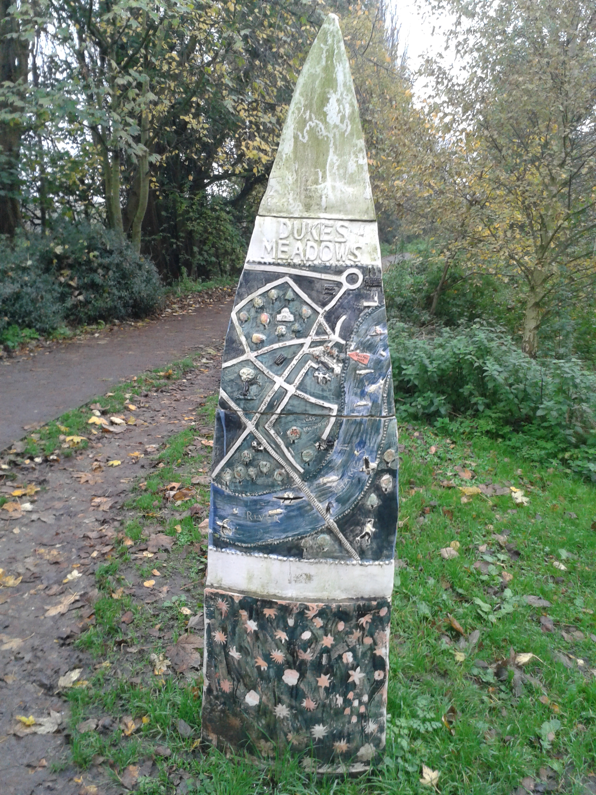 Ceramic way marker with stars and map on the Thames path, Duke's Meadows, Chiswick, London. "Commissioned by the Friends of Duke's Meadows, 2002".